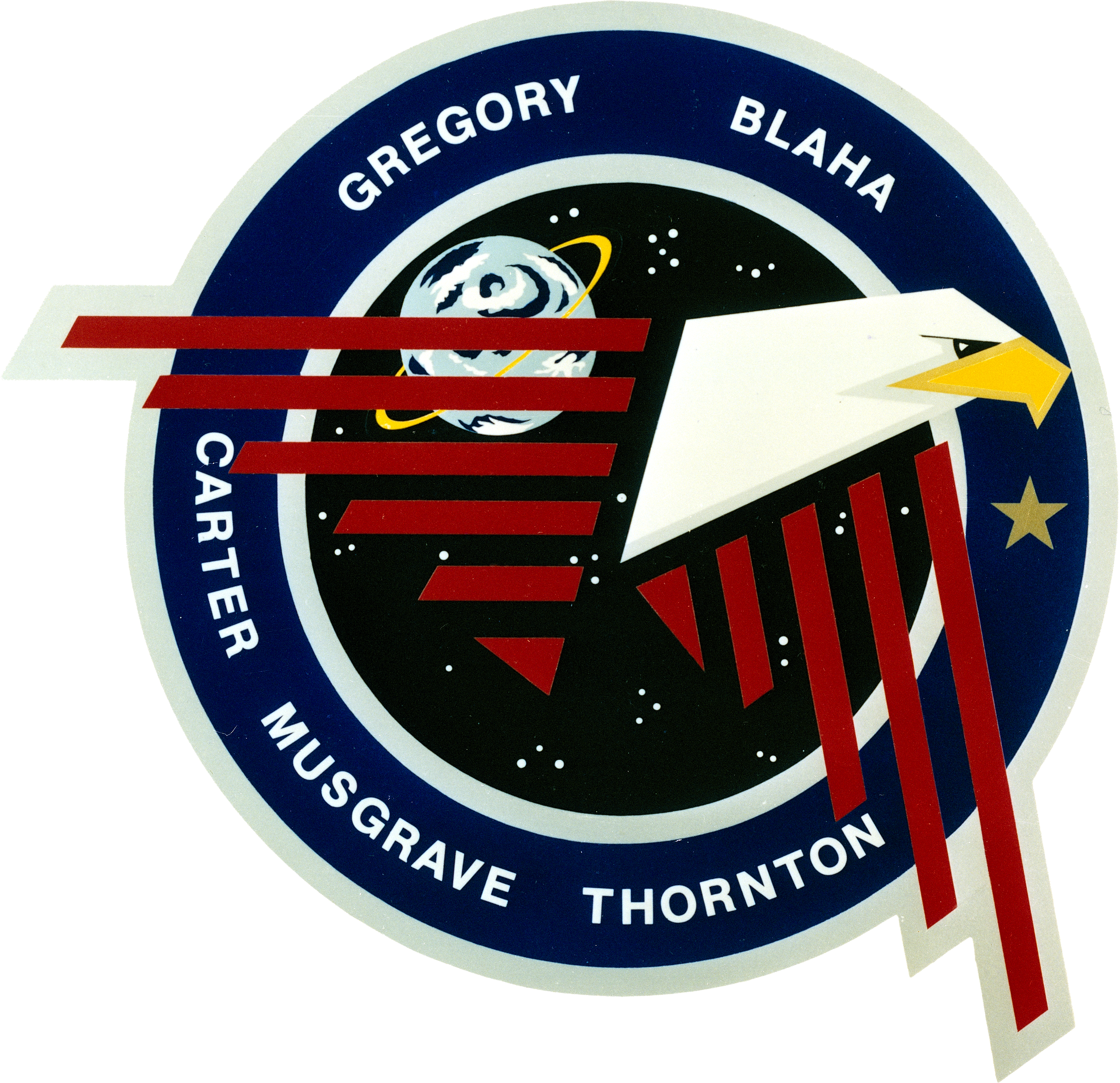 STS-33 Mission Insignia This is the crew patch for STS-33, designed by the five crewmembers. It features a stylized falcon soaring into space to represent America's commitment to manned space flight. The crewmembers feel the falcon symbolizes courage, intelligence, tenacity, and love of flight. They intend the orbit around Earth to represent the falcon's lofty domain; however, the bird, with its keen vision and natural curiosity, is depicted looking forward beyond that domain to challenge the edge of the universe. The bold red feathers of the wings drawn from the American flag overlaying the random field of stars illustrate the determination to expand the boundaries of knowledge by American presence in space. The single gold star on a field of blue honors the memory of the late Rear Admiral S. David Griggs, originally assigned to this crew.